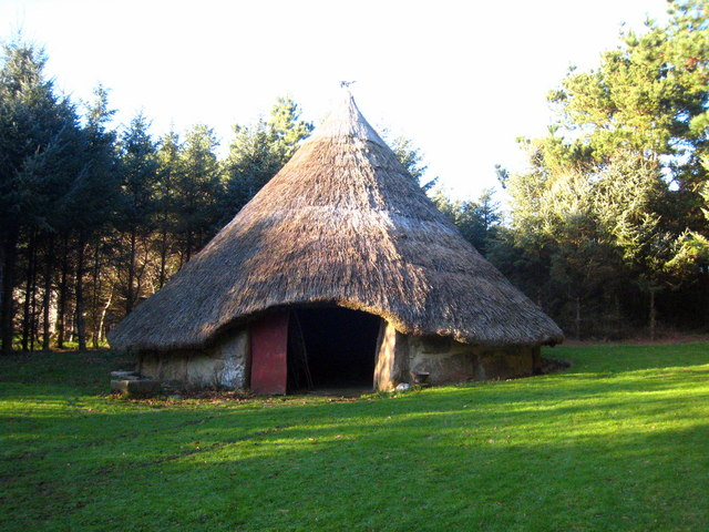 Iron Age roundhouse reconstruction This faithful reconstruction at Bodrifty Farm, just south of the Iron Age settlement is open to visitors.